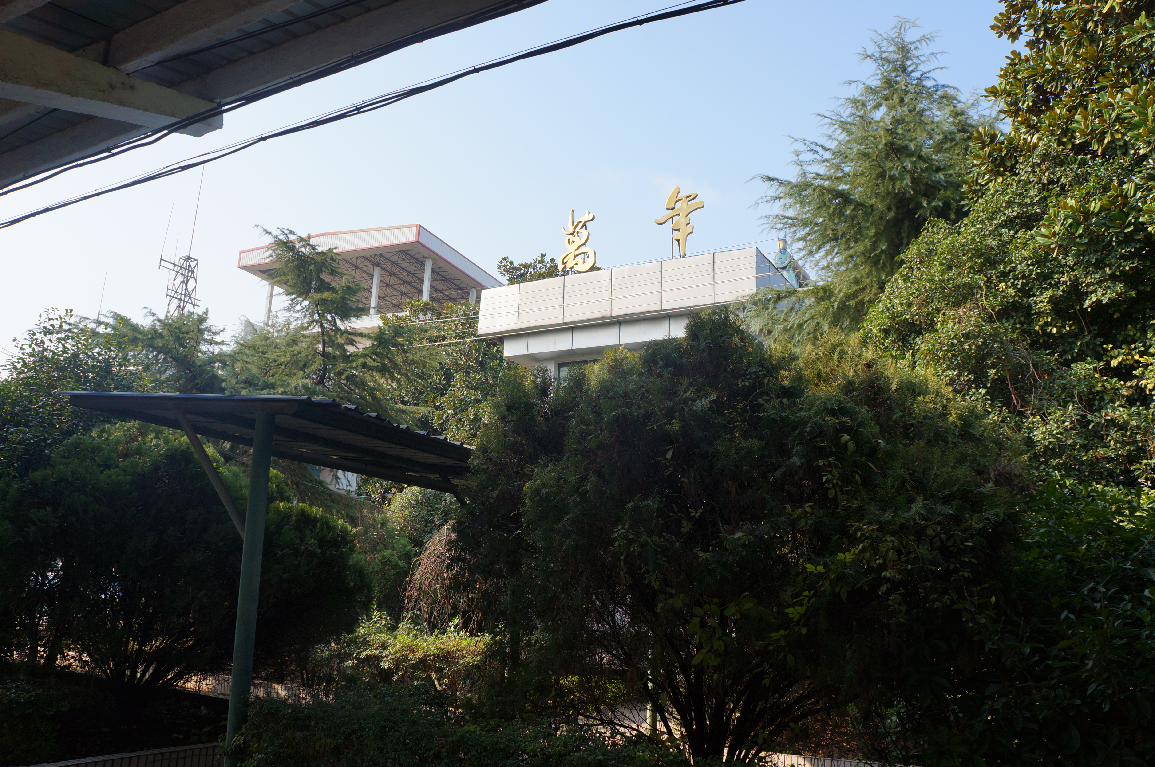 201612 Station building of Wannian Station